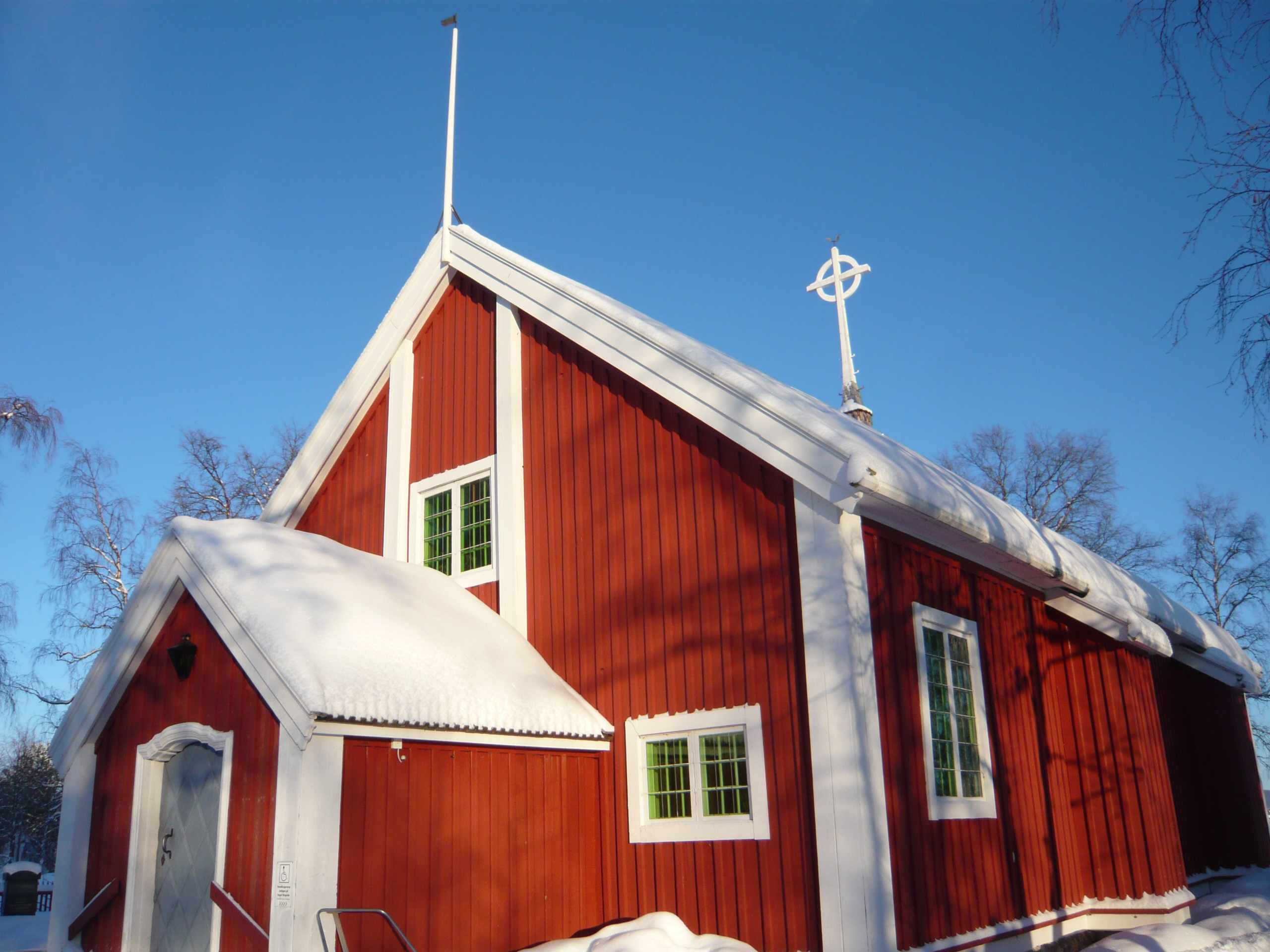 Jukkasjärvi wooden church as viewed from the outside